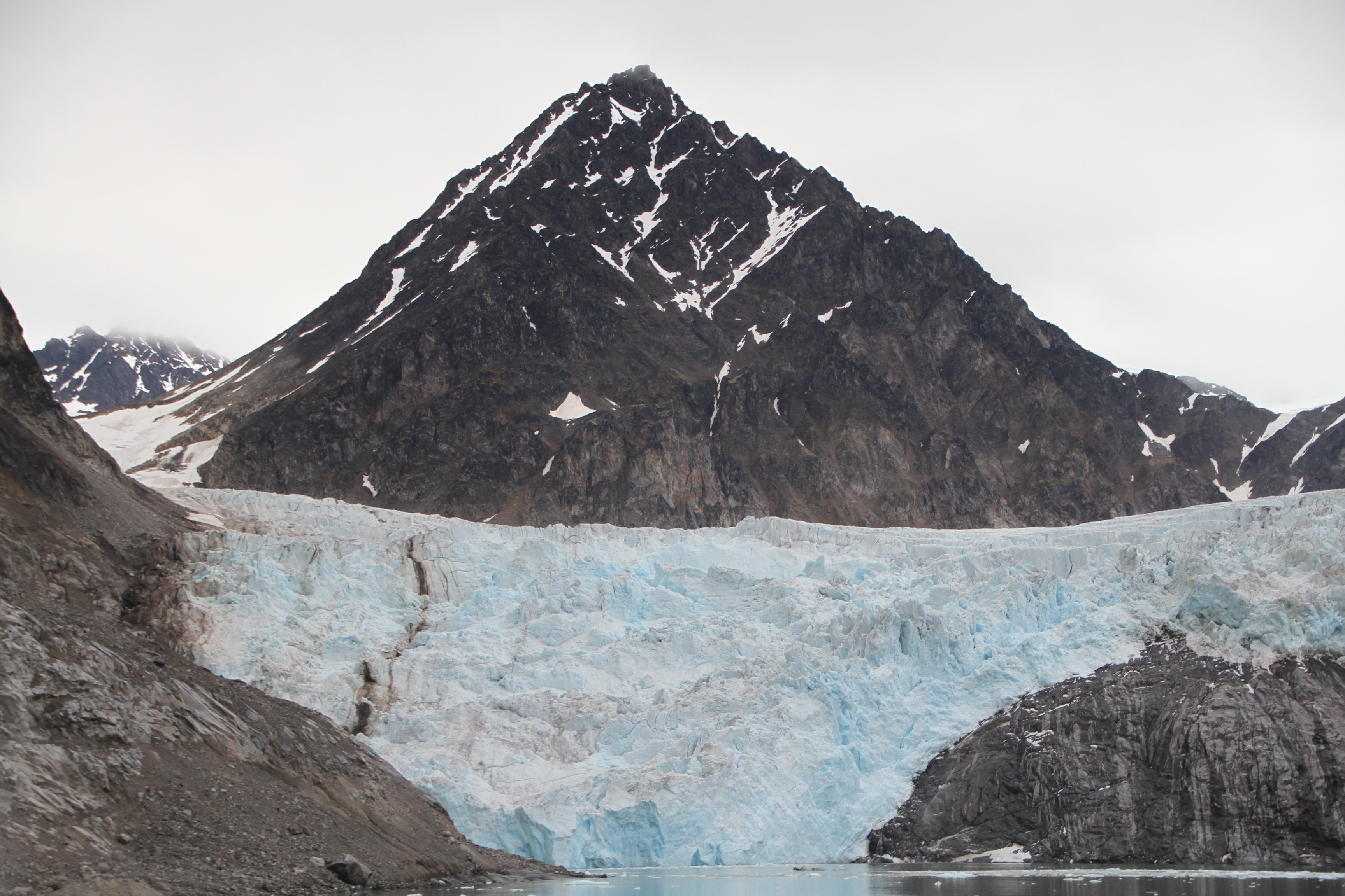 Photo of the coastal mountain areas in Tinayrefjorden, an eastern arm of Krossfjorden, western Haakon VII Land, western Spitsbergen.